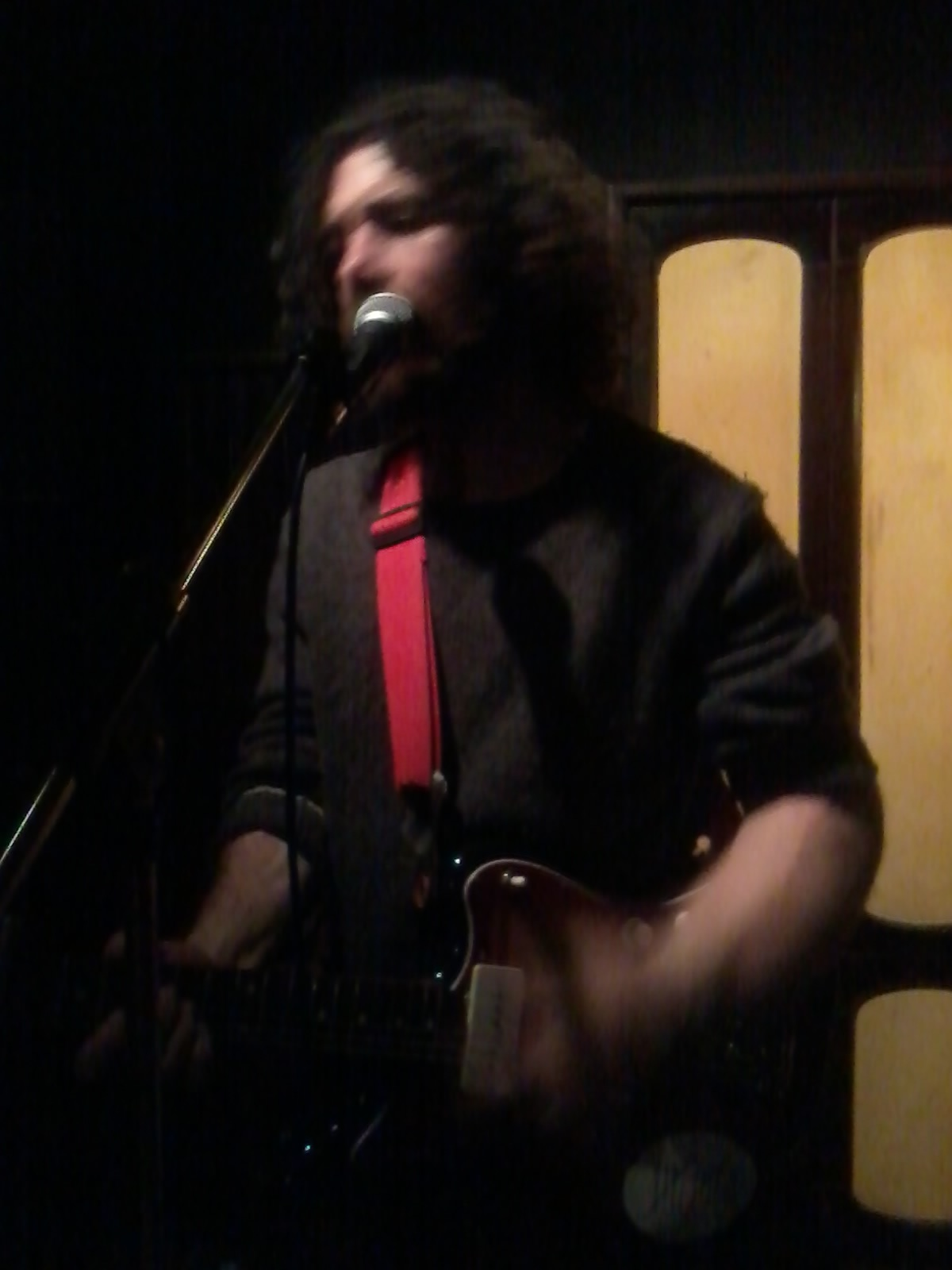 Si Schroeder performing in Kreuzberg, Berlin, September 2013